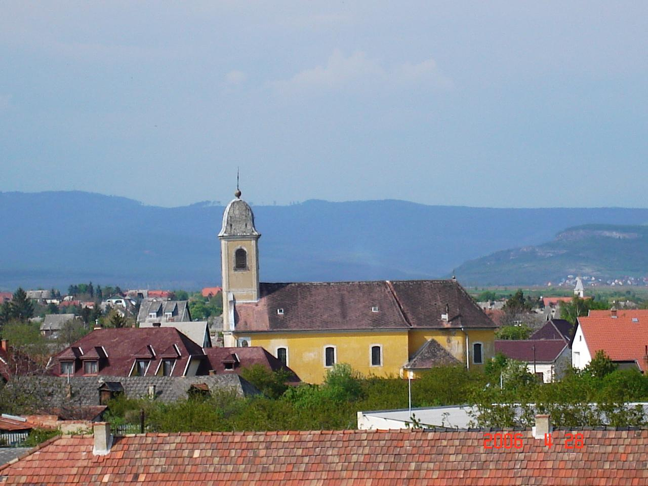 Gyöngyöspüspöki